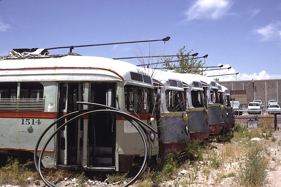 El Paso PCCs at gas company yard July 1993rp